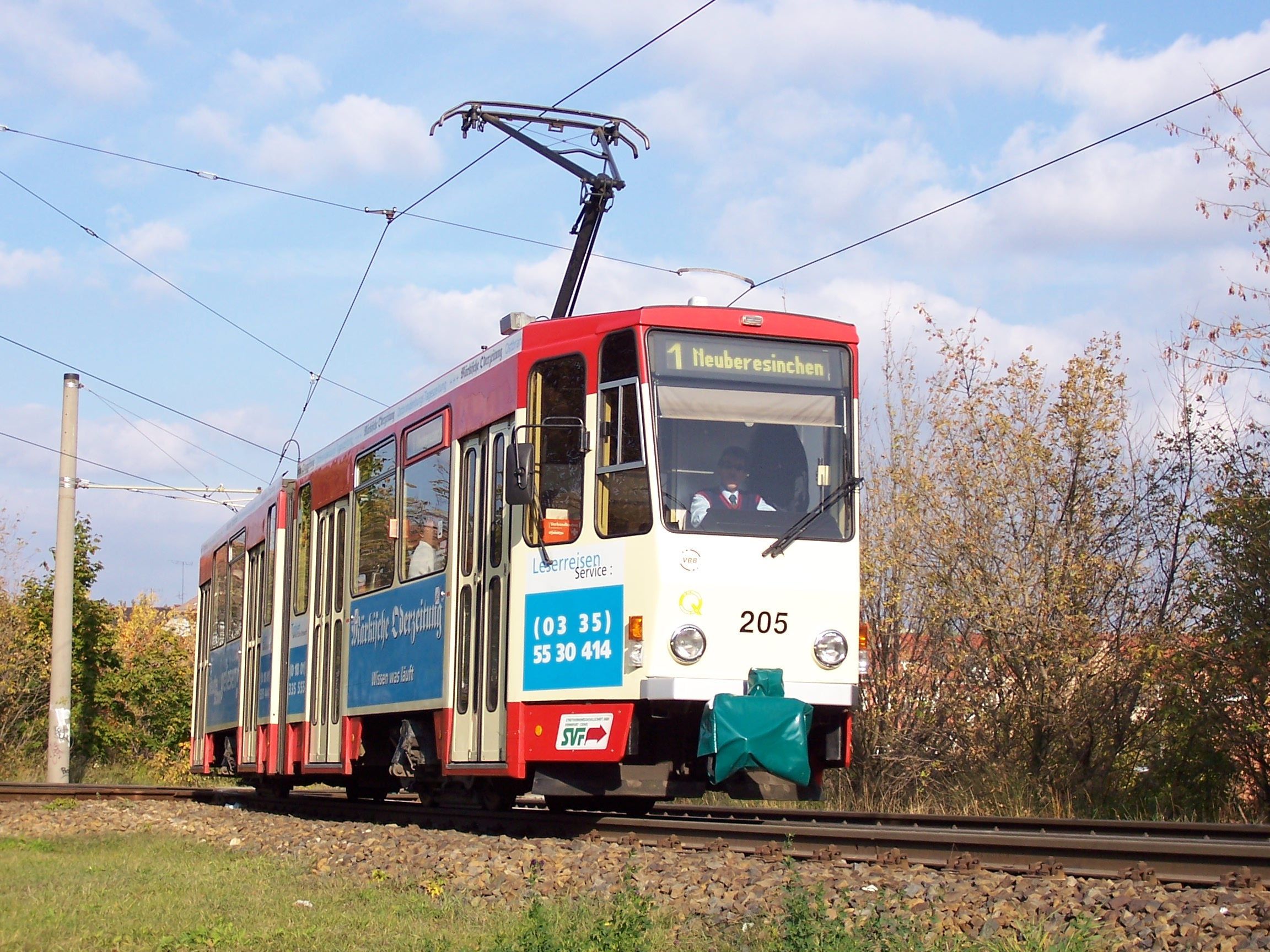 Tram KT4Dm No 205 next to the stop "Johann-Eichorn-Str." in Frankfurt (Oder), Germany